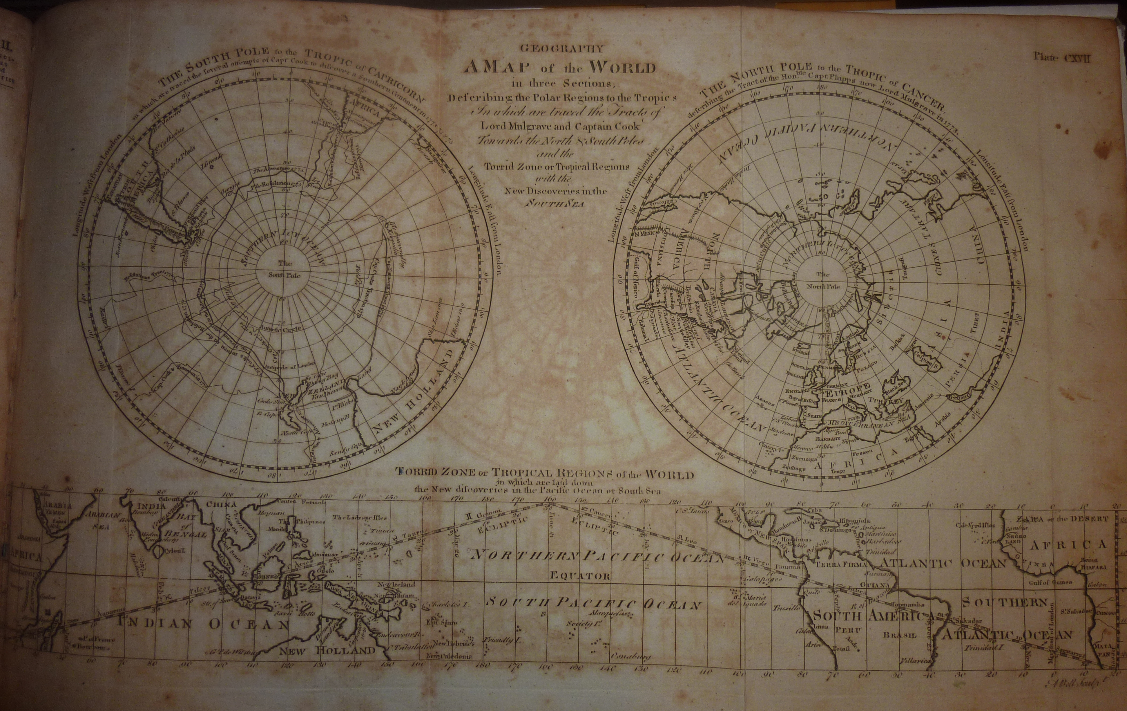 Photo of a map in the second edition of Britannica, dated 1780. Public domain for centuries.